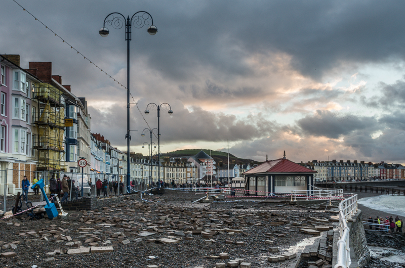 Marine Terrace - storm damage